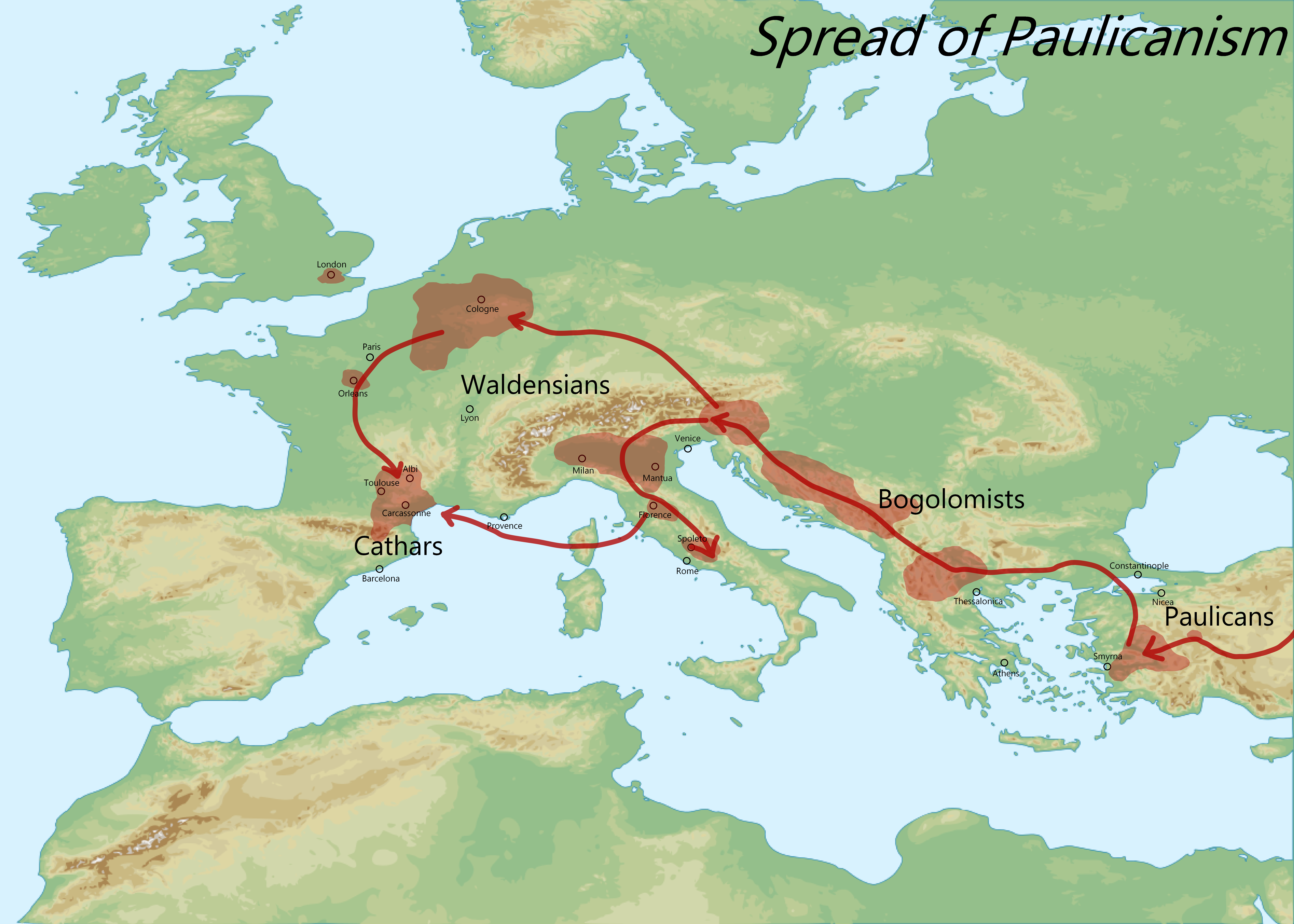 Map showing spread of paulicanism